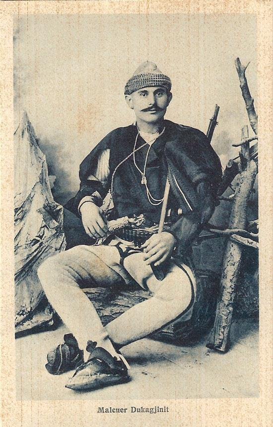 Photograph of an Albanian man from Dukagjini by Pjetër Marubi.